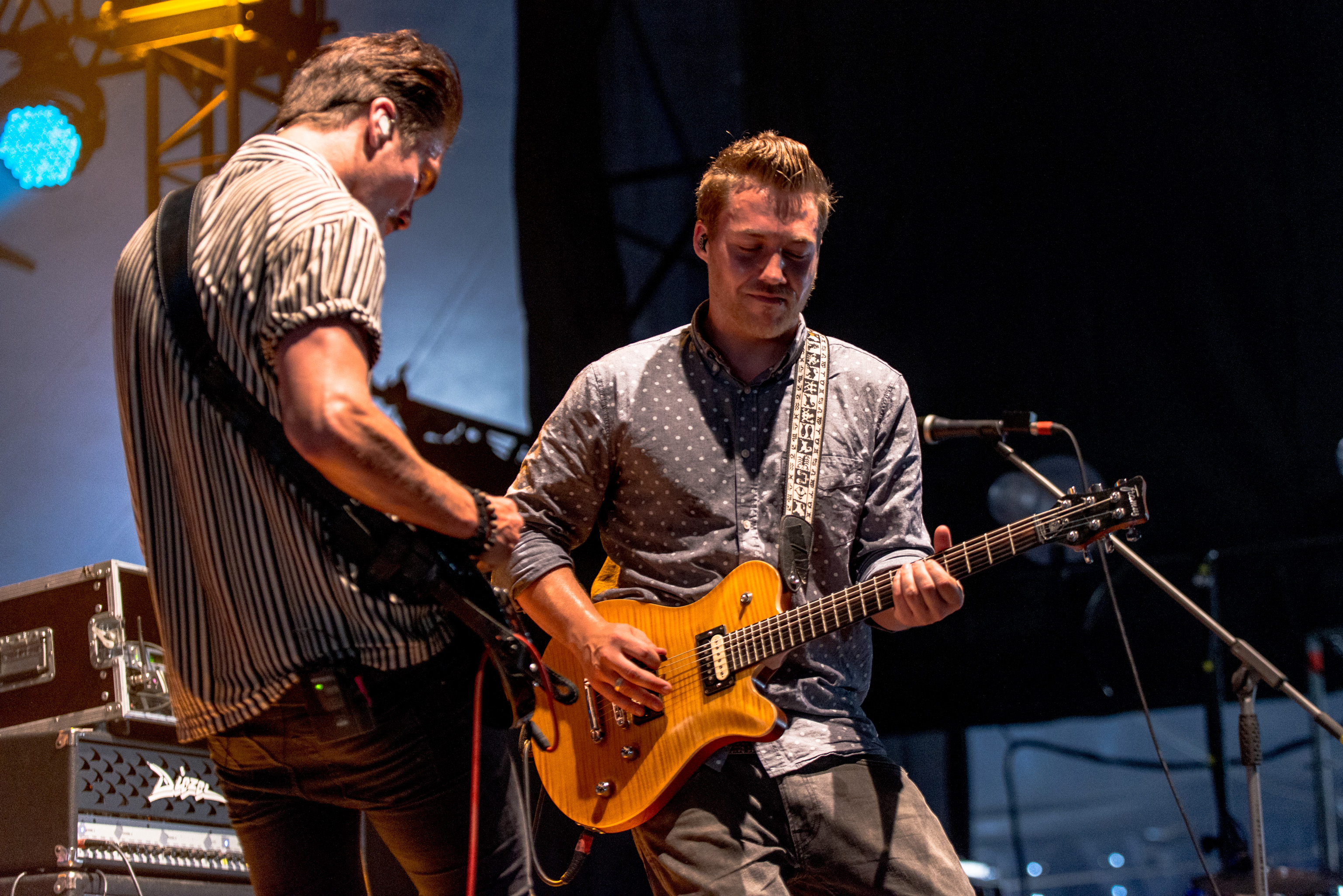 Killerpilze in Munich 2015